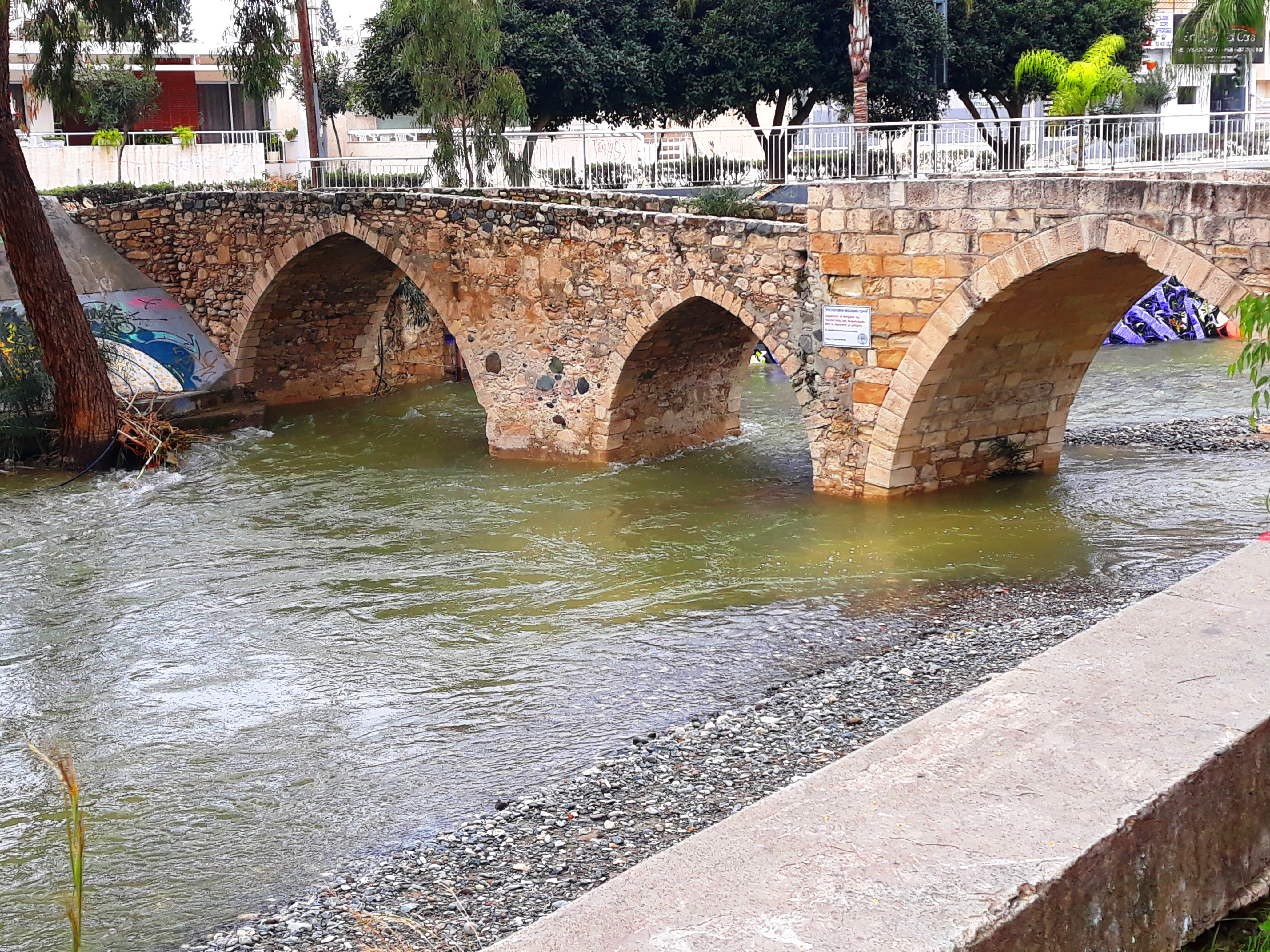 Amathos river at Germasogeia.